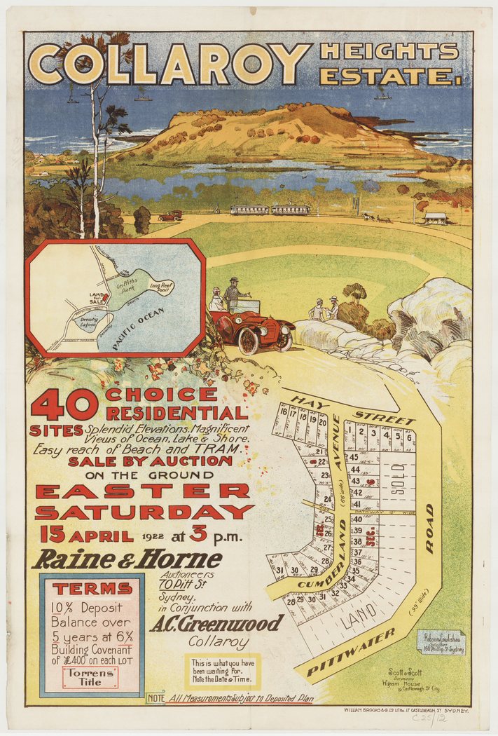 Collaroy Heights Estate, 1922, subdivision plan, printed by William Brooks and Co., State Library of New South Wales Z/SP/C25/12